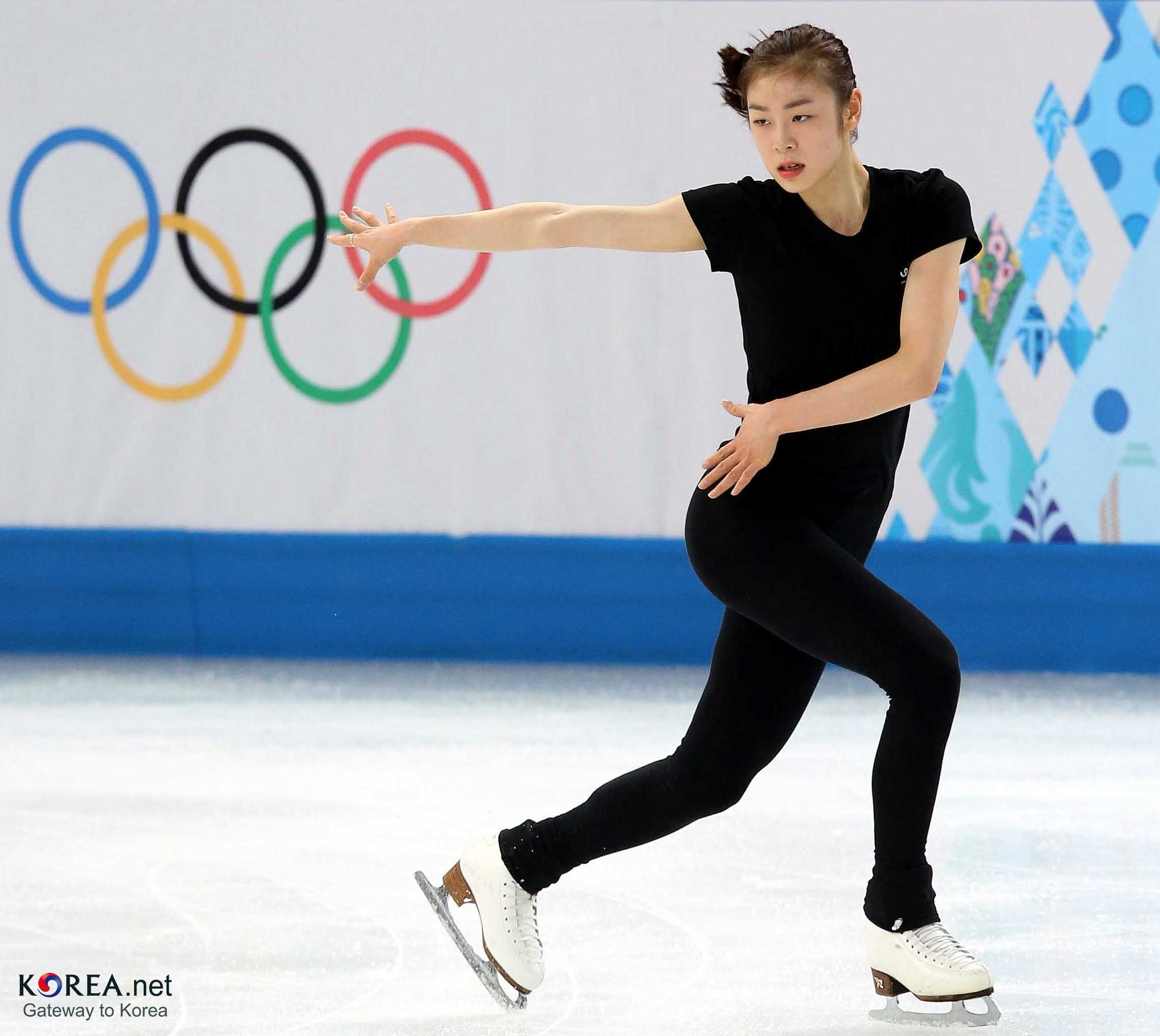 Kim Yuna is training in Sochi. February 16, 2014 Iceberg Skating Palace, Sochi, Russia Photo: The Korean Olympic Committee Related Articles -English- 'Enjoy your time in Sochi': President Olympics team heads to Sochi 2014 소치 동계올림픽 출전을 앞두고 있는 김연아가 훈련을 하고 있다. 2014-02-16 러시아, 소치. 아이스버그 스케이팅 팰리스 사진: 대한체육회